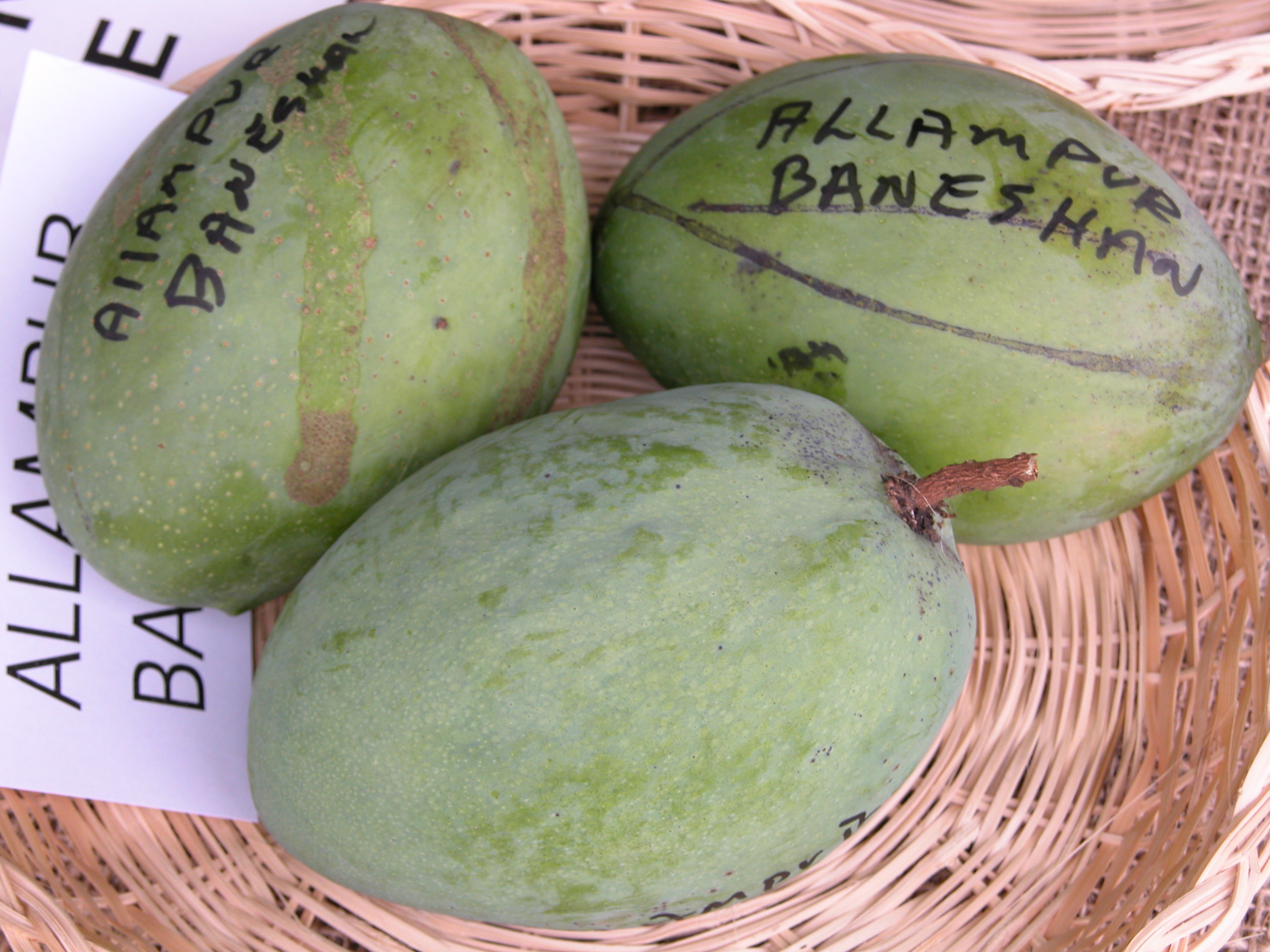 The photo shows a display of ‘Alampur Baneshan’ mangoes at the Fruit And Spice Park in Homestead, Florida.